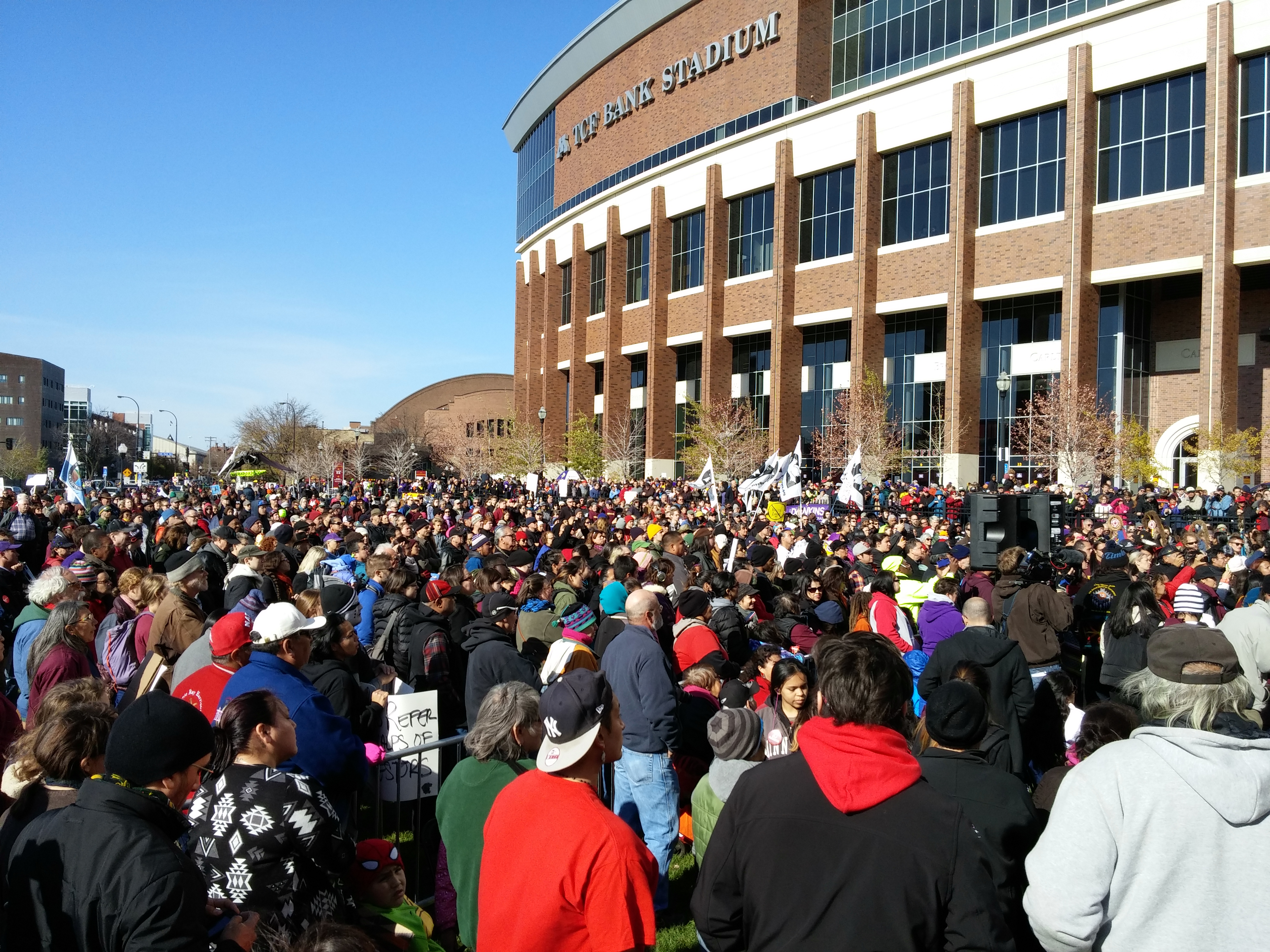 Minneapolis, Minnesota November 2, 2014 Several thousand protesters marched through Minneapolis to TCF Stadium where the Vikings were playing the Washington DC football team. The protesters called for the Washington team to stop using the name "redskins" for their name and stop using the image of a Native American as their mascot. Another group from the University of Minnesota marched to the stadium too. The demonstration at the stadium included speakers such as Minneapolis Mayor Betsy Hodges and US Congressman Keith Ellison. 2014-11-02 This is licensed under a Creative Commons Attribution License. Give attribution to: Fibonacci Blue